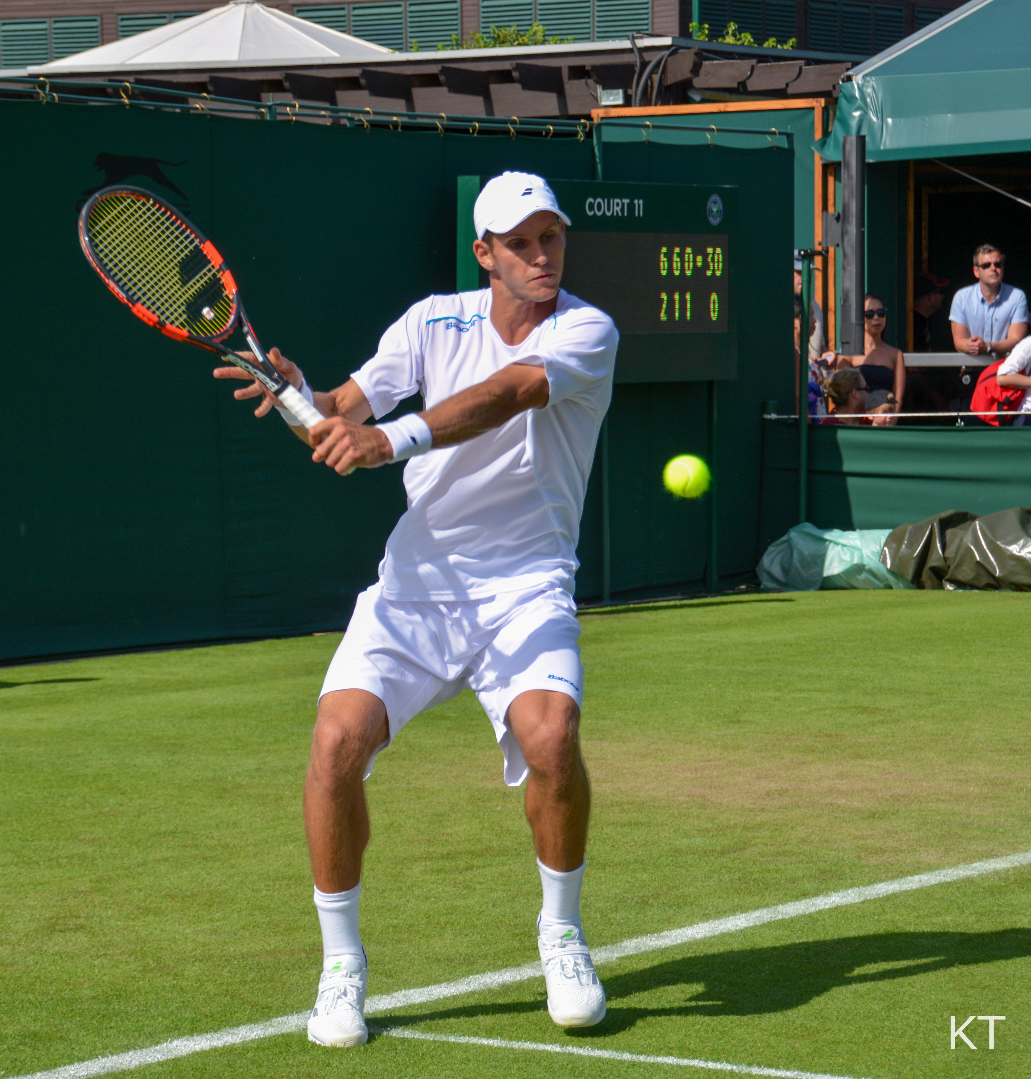 Day 1 of Wimbledon 2015